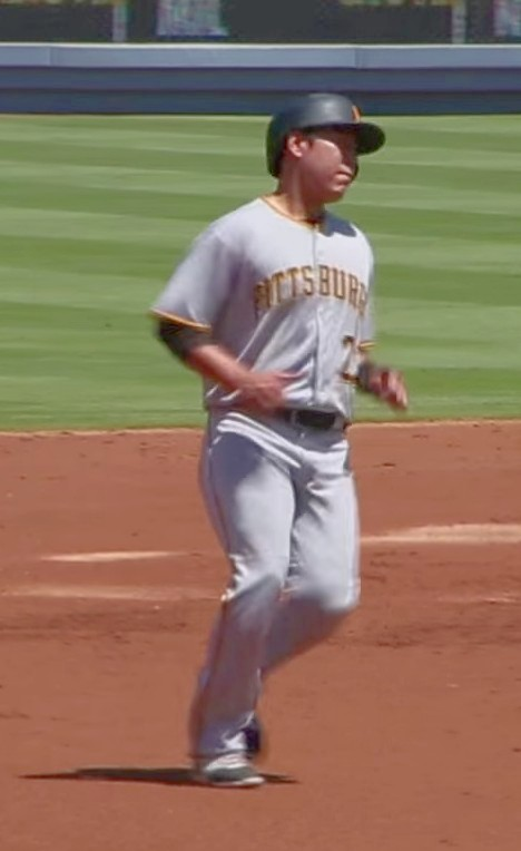 Jung-Ho Kang